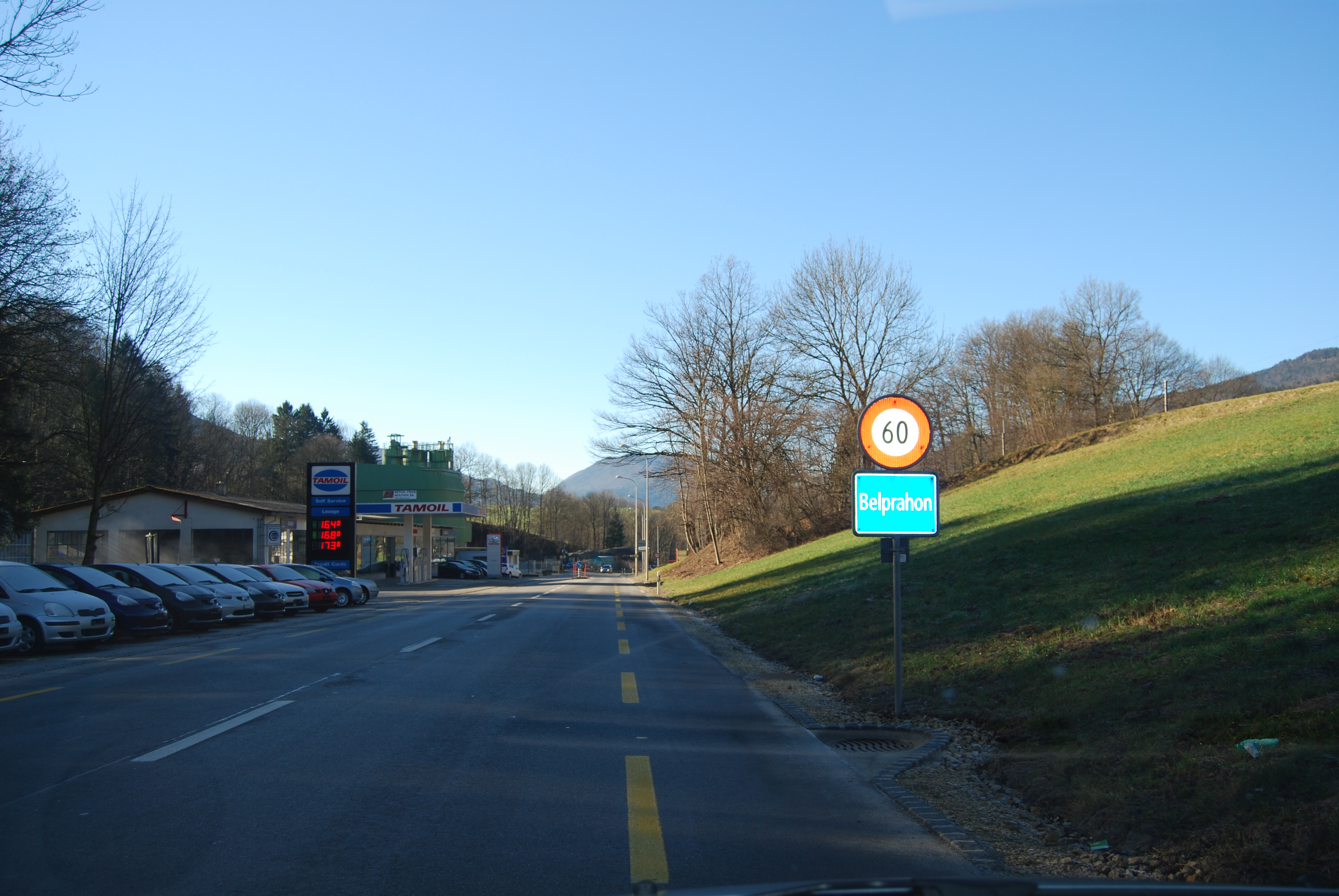 Belprahon, canton of Bern, SwitzerlandEsperanto: Belprahon, Kantono Berno, Svislando